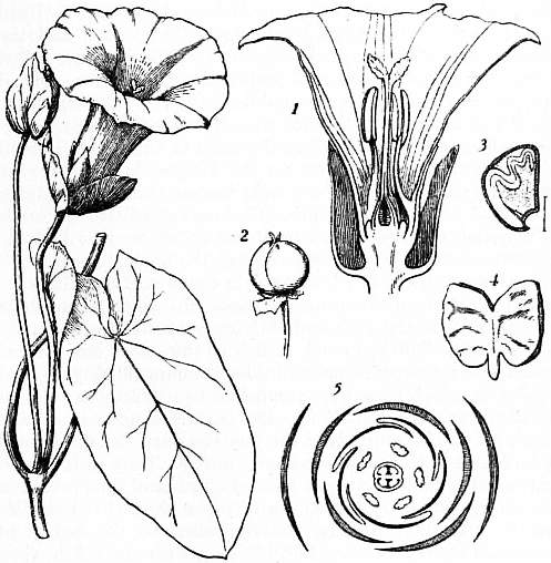 Convolvulus sepium, from 1911 Encyclopædia Britannica. Convolvulus sepium, slightly reduced. 1. Flower cut vertically. 2. Fruit, slightly reduced. 3. Seed cut lengthwise showing embryo. 4. Embryo taken out of seed. 5. Horizontal plan of arrangement of flower.